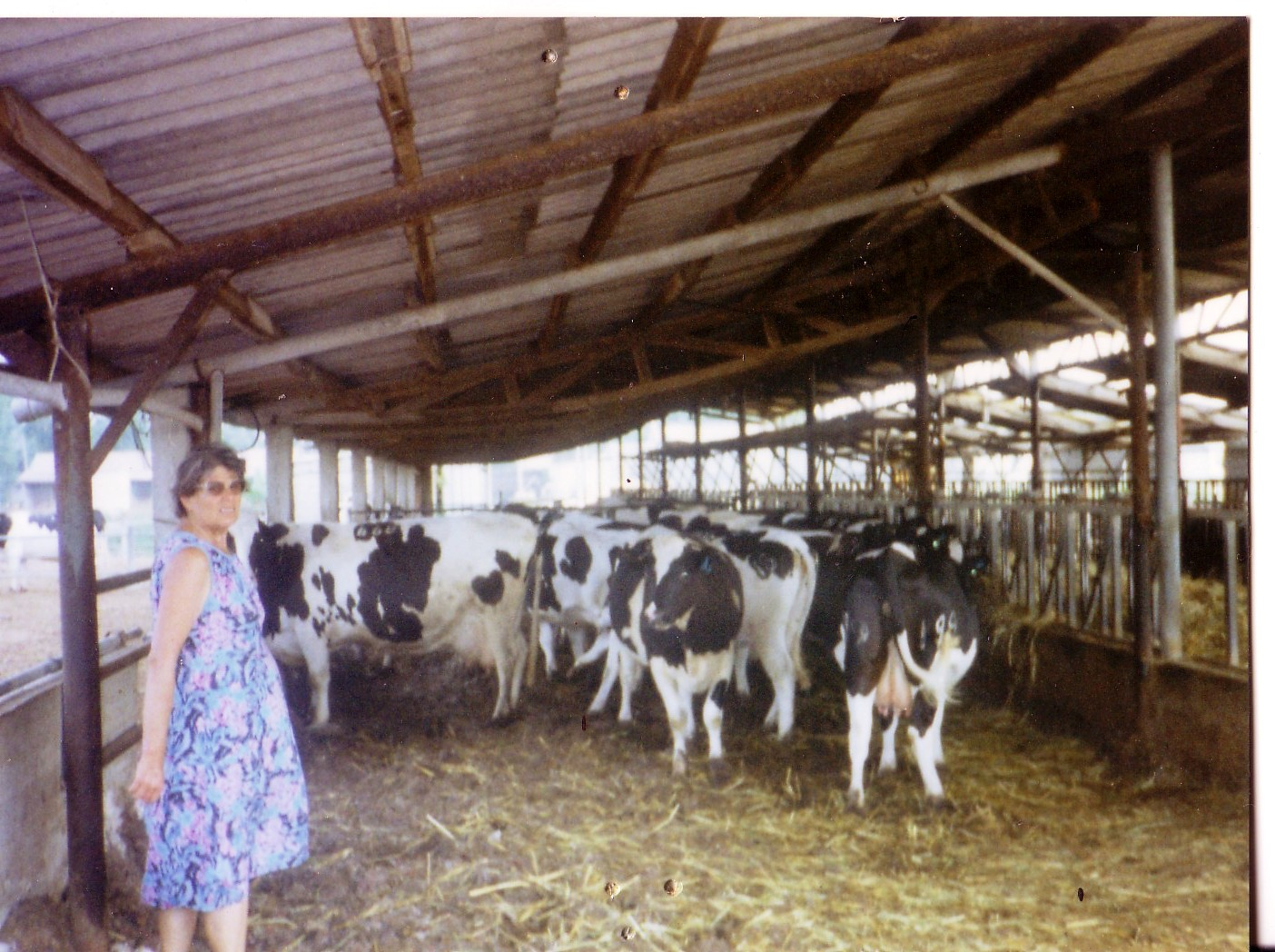 Barn in 1984